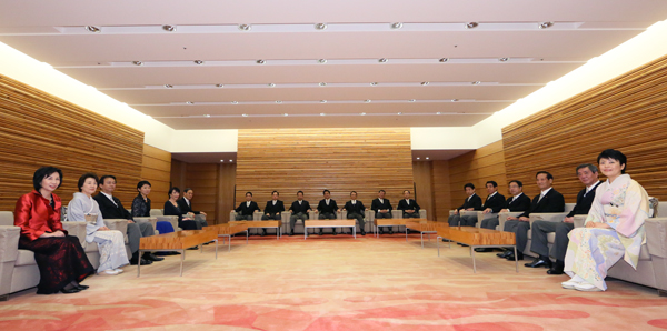 Shinzō Abe, Prime Minister, posed for the photo with Sanae Yamamoto, Midori Baba, Fumio Kishida, Tarō Asō, Hakubun Shimomura, Yasuhisa Shiozaki, Kōya Nishikawa, Yūko Obuchi, Akihiro Ōta, Yoshio Mochizuki, Akinori Eto, Yoshihide Suga, Wataru Takeshita, Eriko Ogawa, Shun'ichi Yamaguchi, Haruko Arimura, Akira Amari and Shigeru Ishiba, Ministers of State, at the Prime Minister's Official Residence in Chiyoda Ward, Tōkyō Metropolis on September 3, 2014.